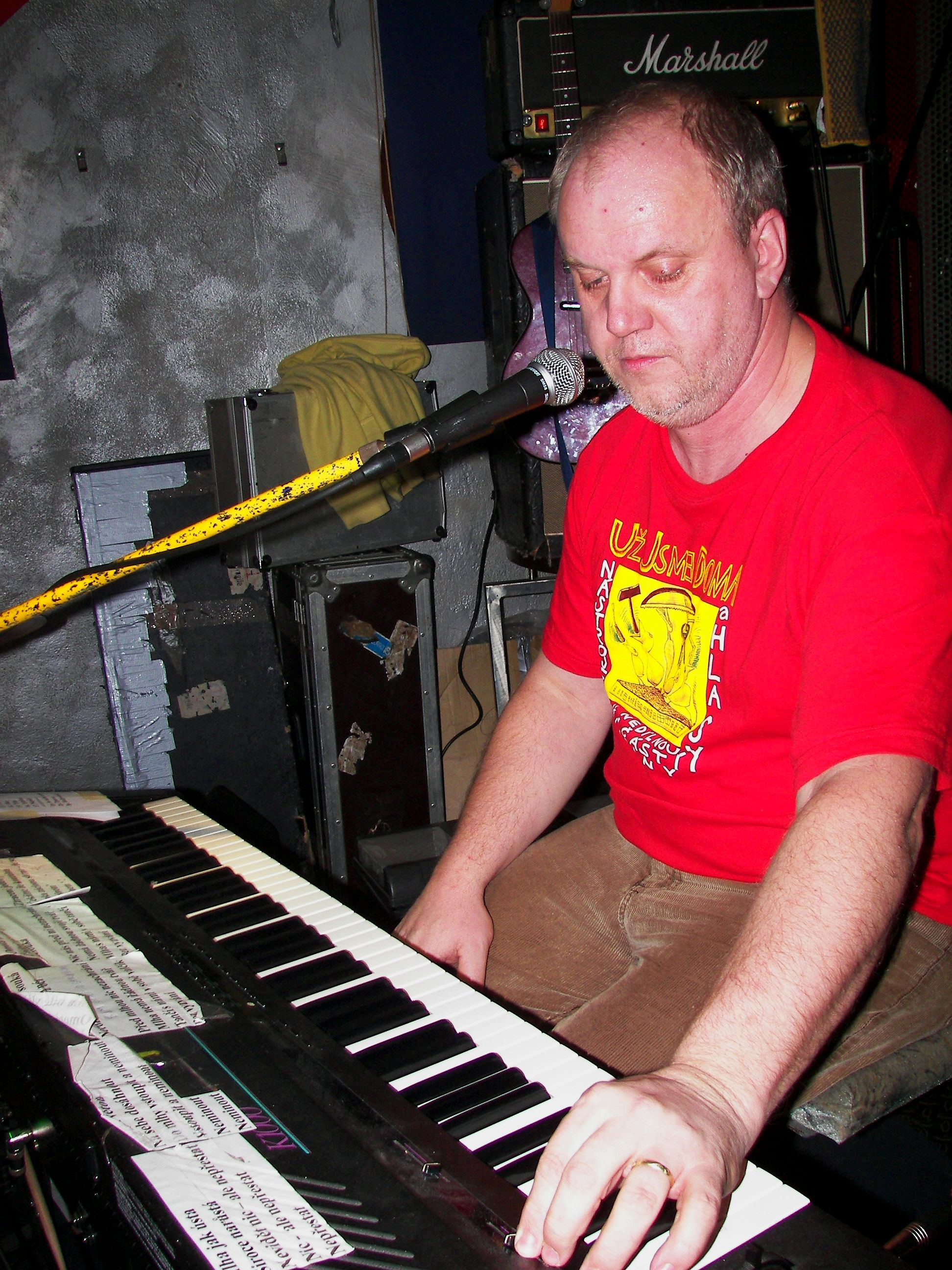 Miroslav Wanek (Už Jsme Doma) performence at Aurora club in Warsaw, Poland (7 february 2007)